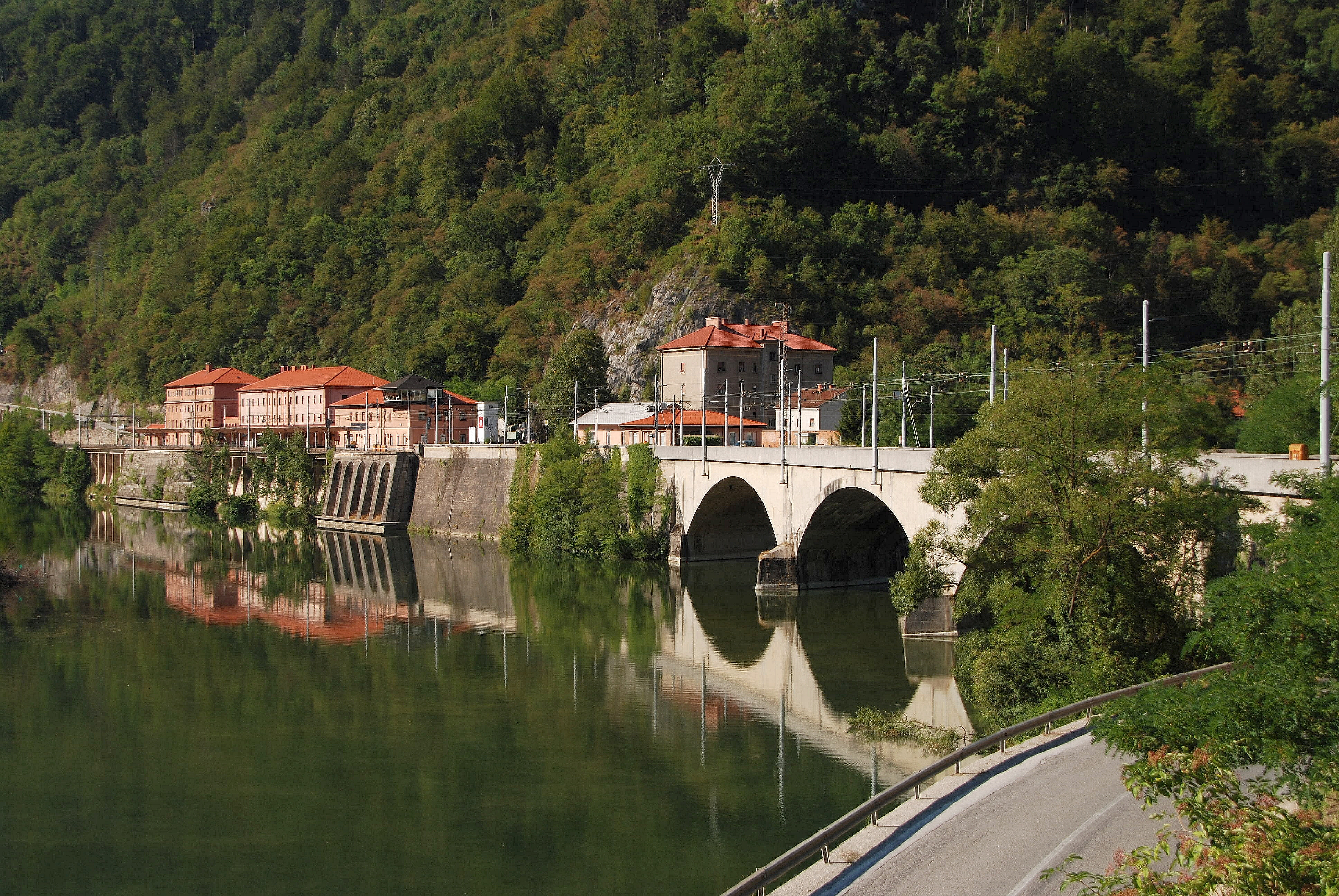 The railroad station and the railroad bridge in the settlement of Zidani Most, Municipality of Laško, eastern Slovenia.